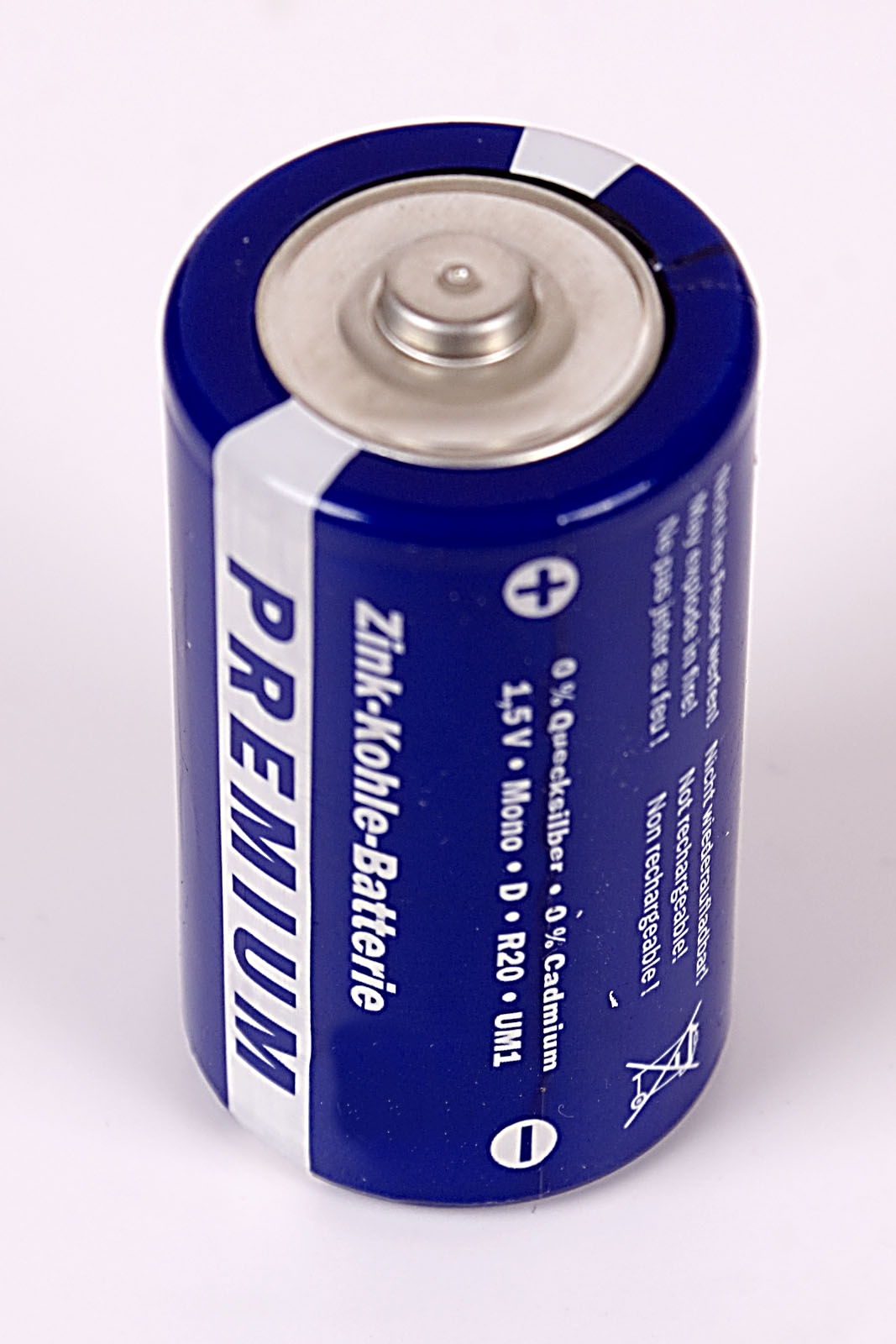 Battery Mono-Size